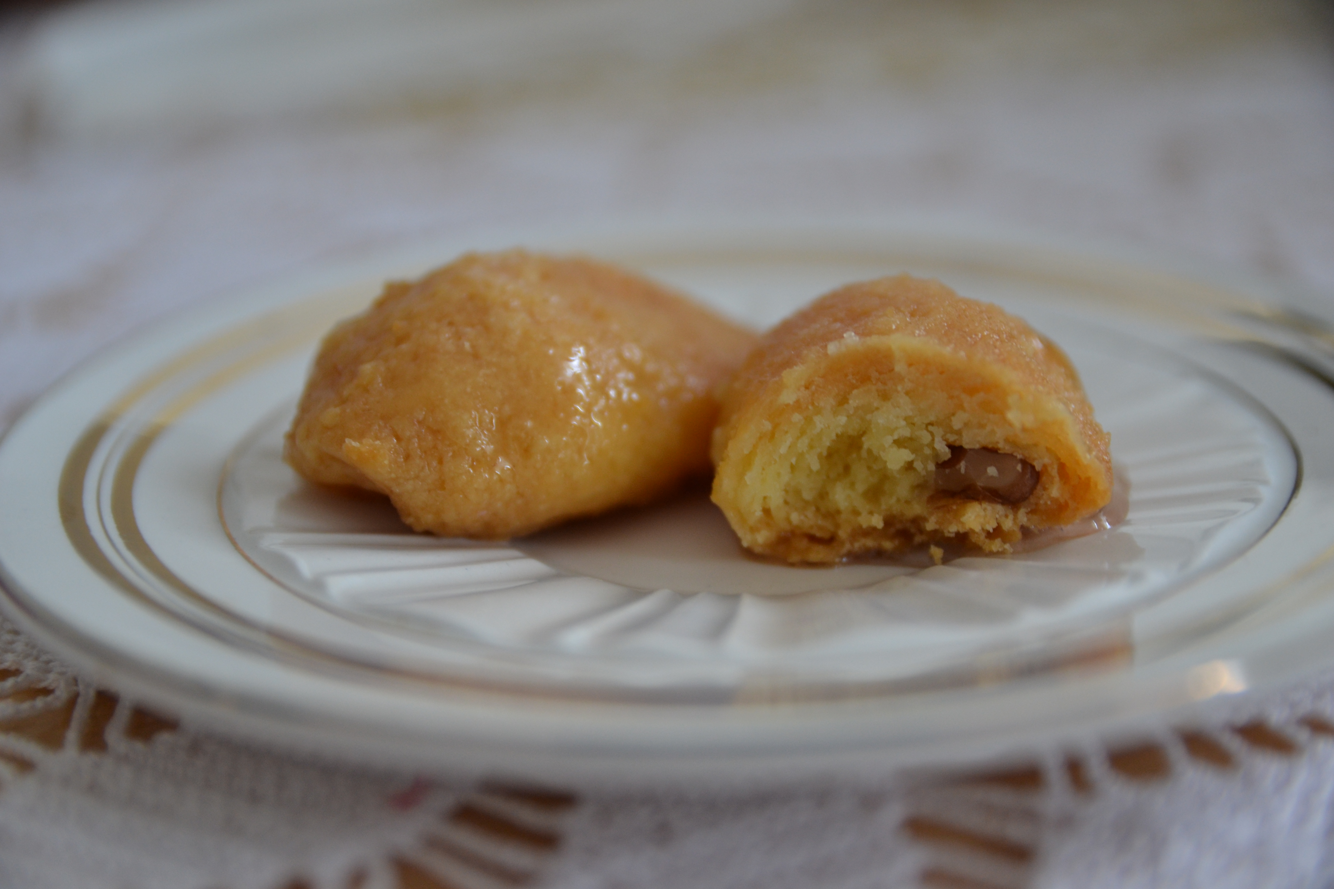 Urmasica desert